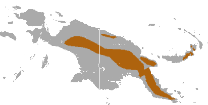 Mountain Tube-nosed Fruit Bat (Nyctimene certans) range